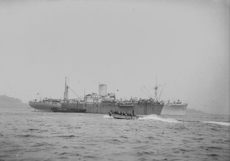 EMPIRE BATTLEAXE with a landing craft alongside at Greenock.